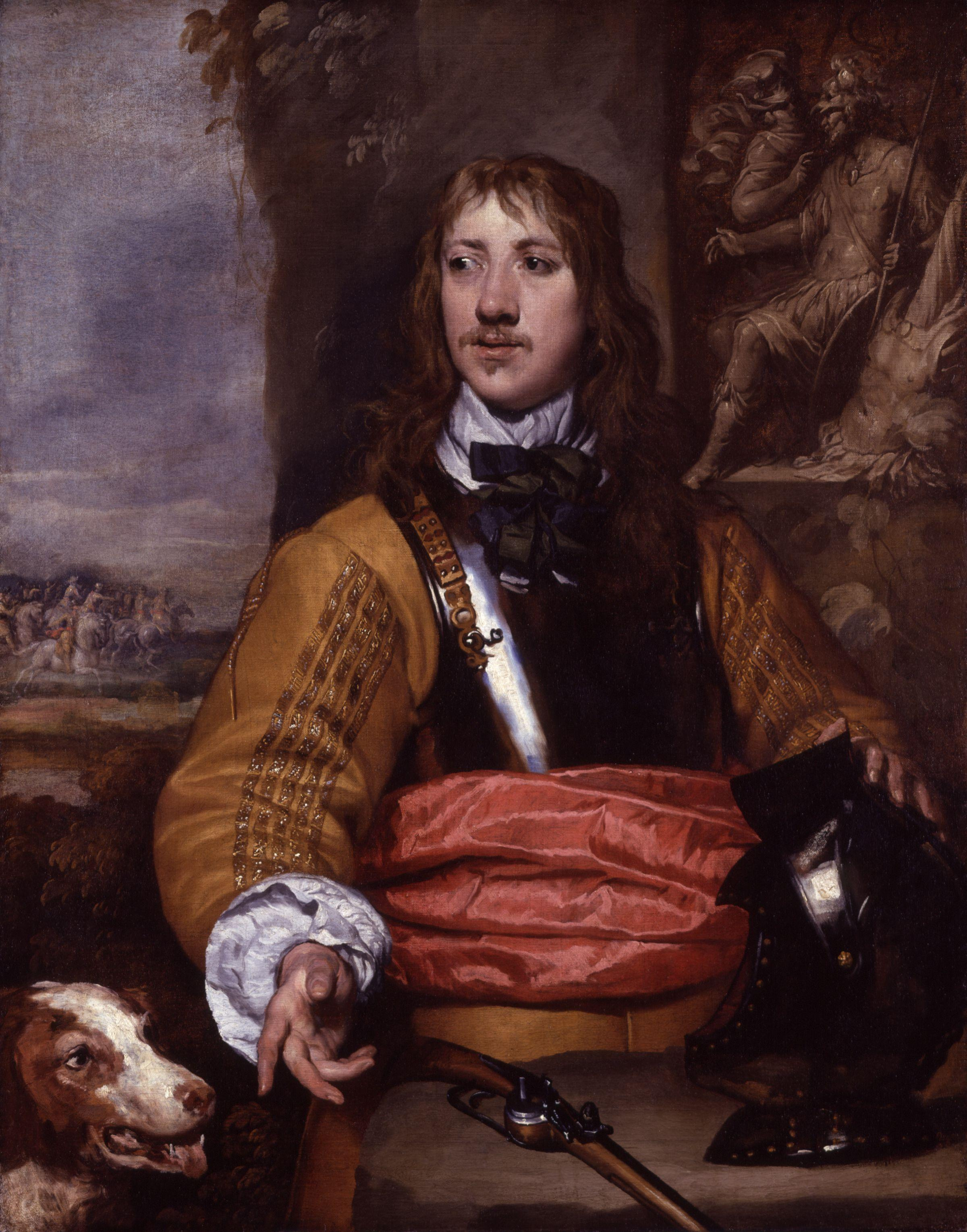 Richard Neville, by William Dobson (born 1615). Landowner from Berkshire who commanded at first battle of Newbury. All images in this batch have been confirmed as author died before 1939 according to the official death date listed by the NPG.